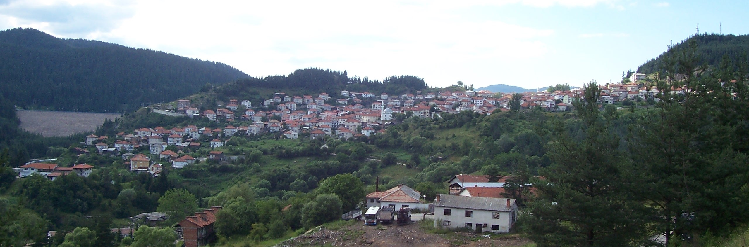 A view of Dospat.